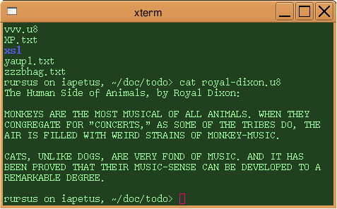 An illustration of the readability of "plain text"